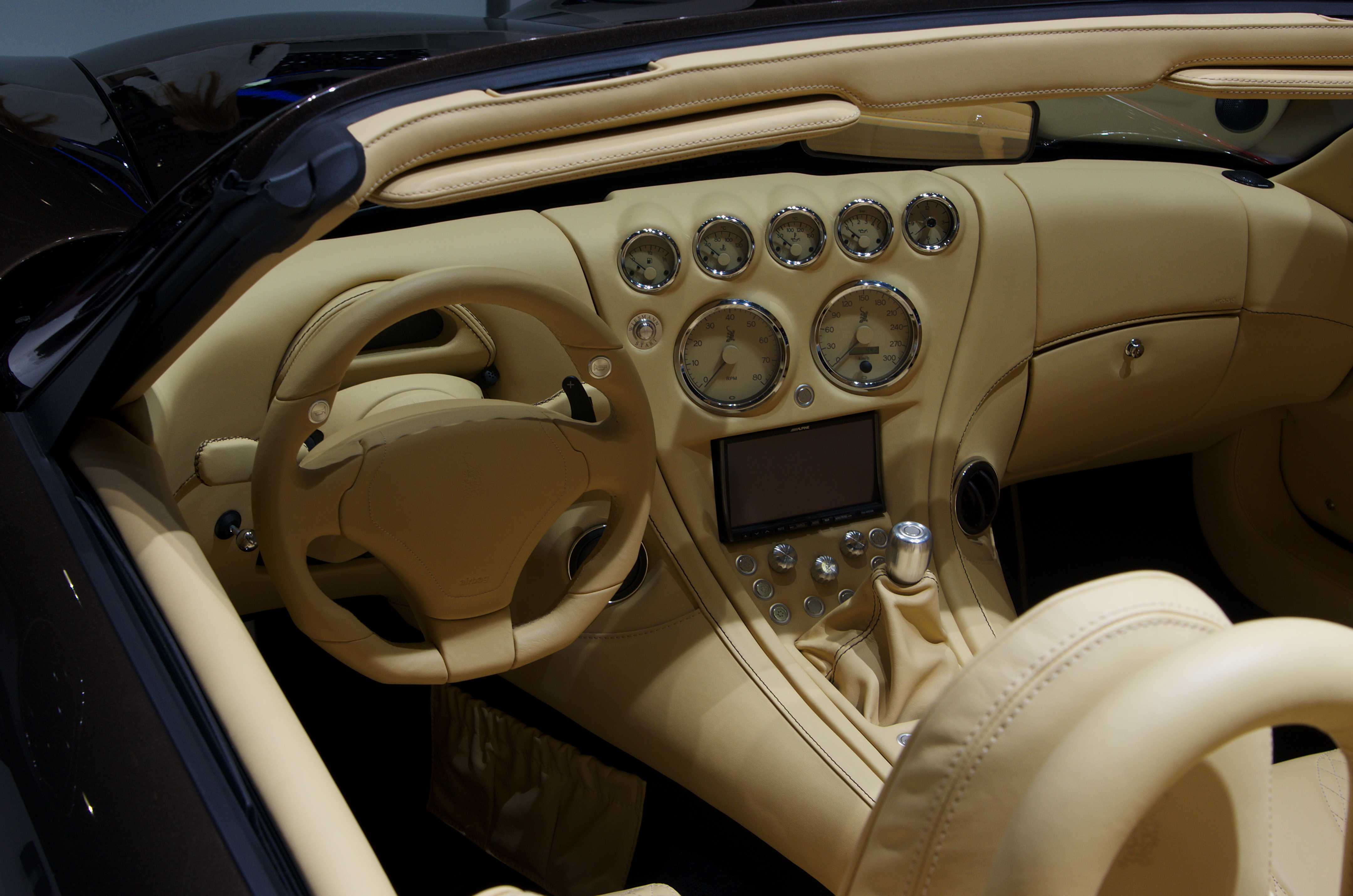 Geneva MotorShow 2013 - Wiesmann MF4 Roadster steering wheel